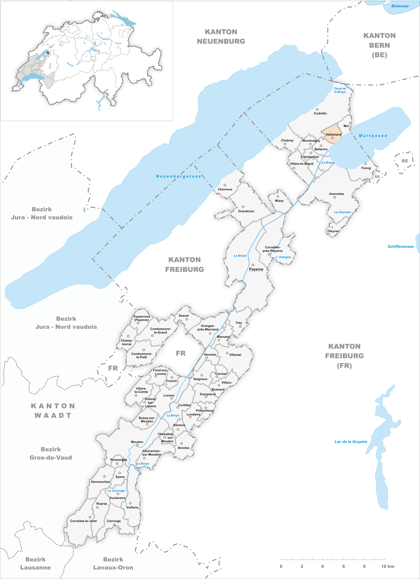 Municipality Vallamand